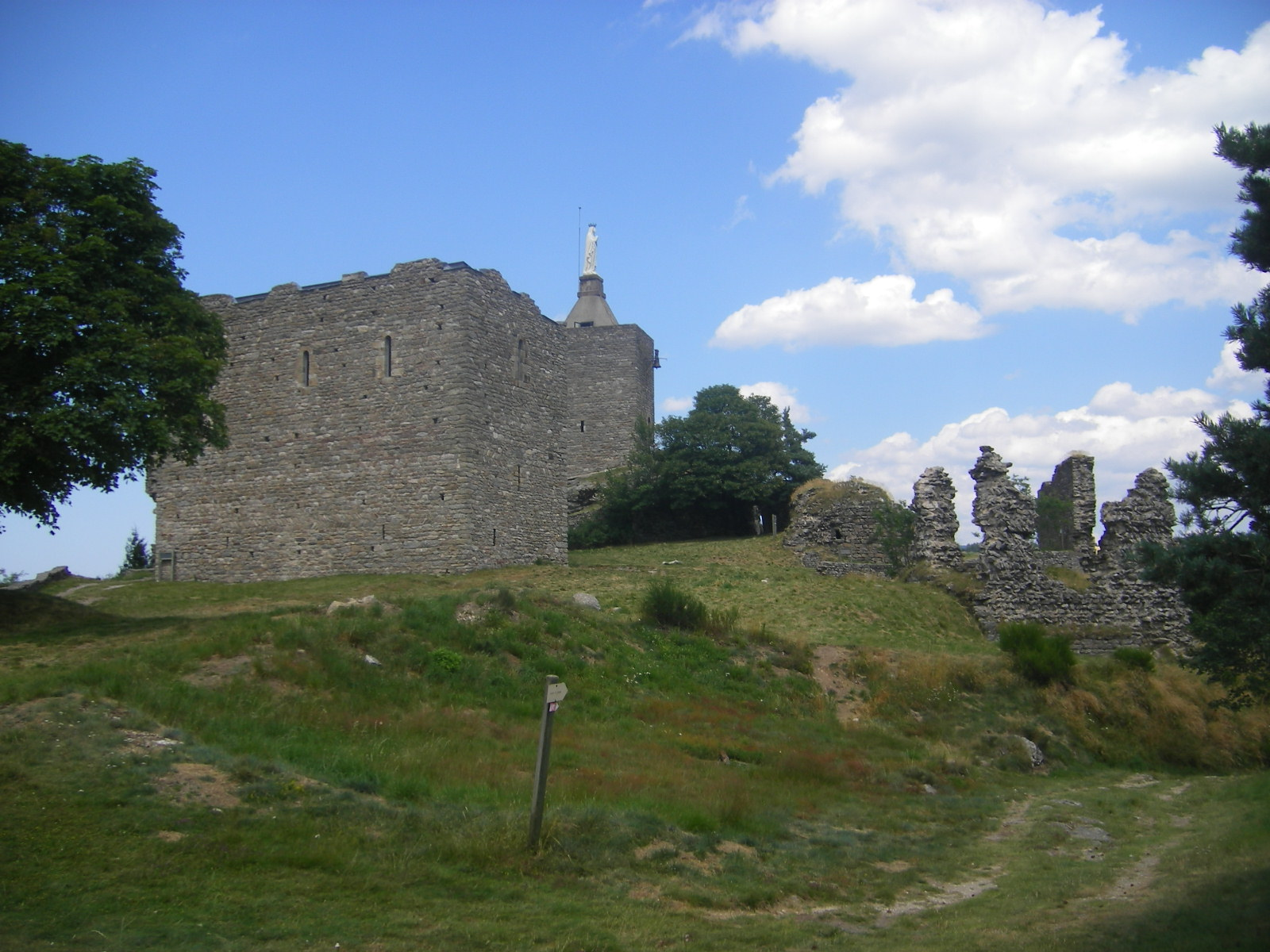 The Luc Castle